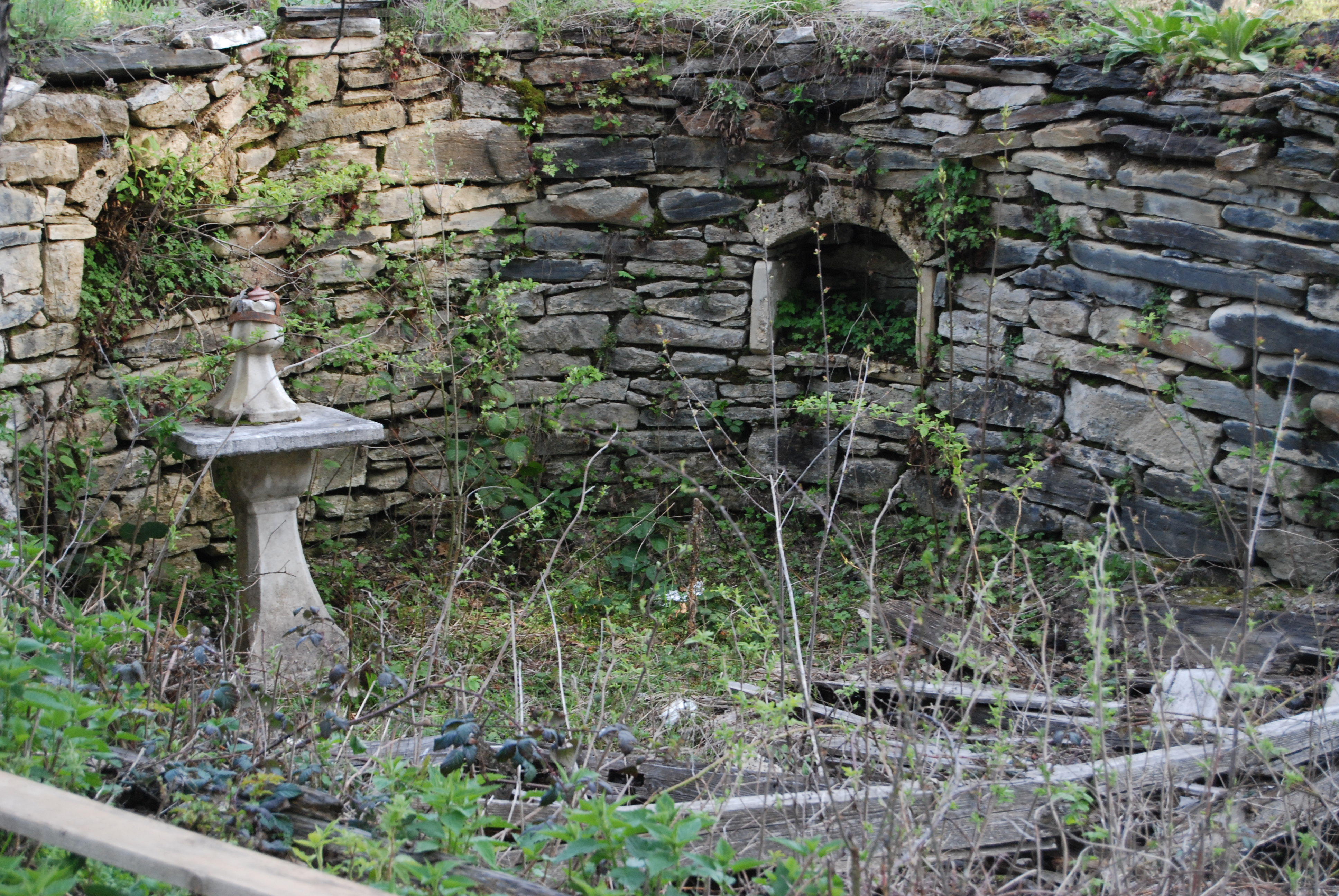 Church of the Preobraženje located in the hamlet of Middle River, village of Dajići, municipality Ivanjica.Српски (ћирилица): Црква Преображења налази се у засеоку Средња Река, село Дајићи, општина Ивањица.